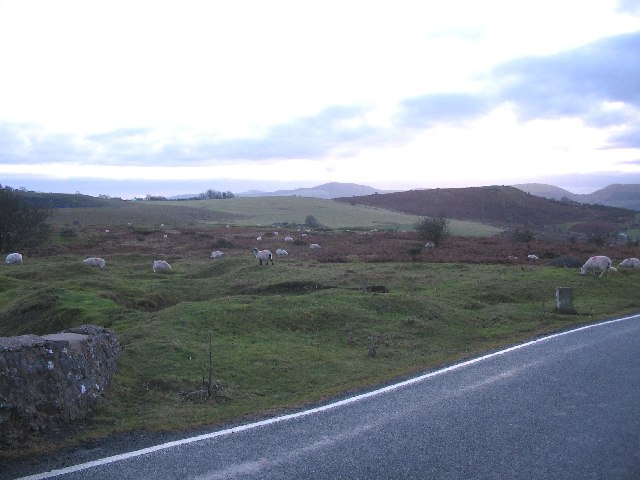 Halkyn Mountain. A view looking slightly west of south across the old mine workings on the common land at Halkyn Mountain. Moel Fammau, the highest point of the Clwydian Range, can be seen in the distance at centre.